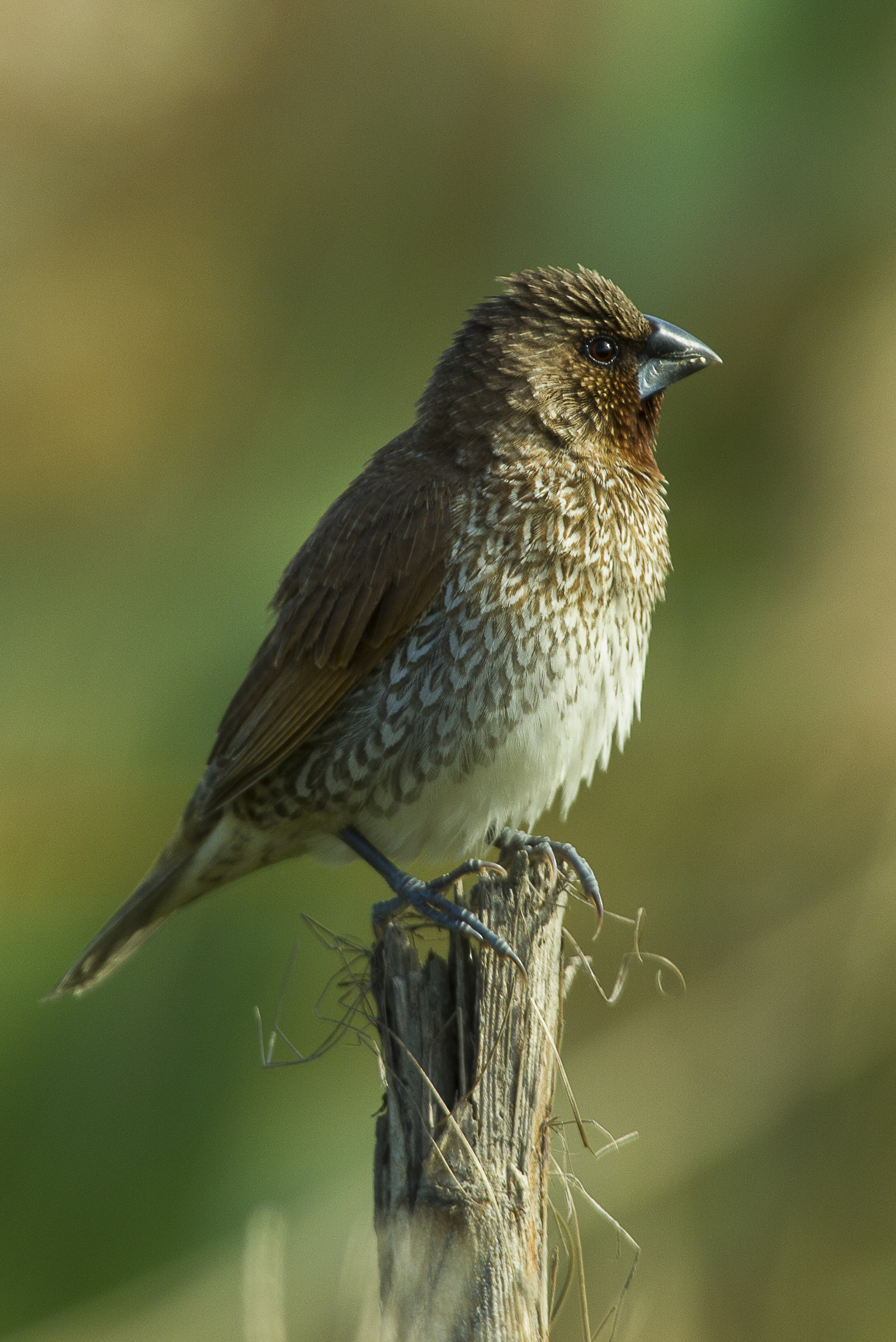 Scaly-breasted Munia - Taiwan_S4E7851